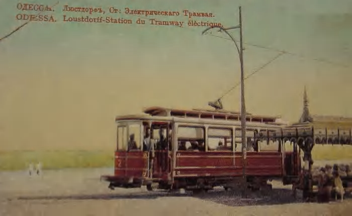 Lustdorf tram station